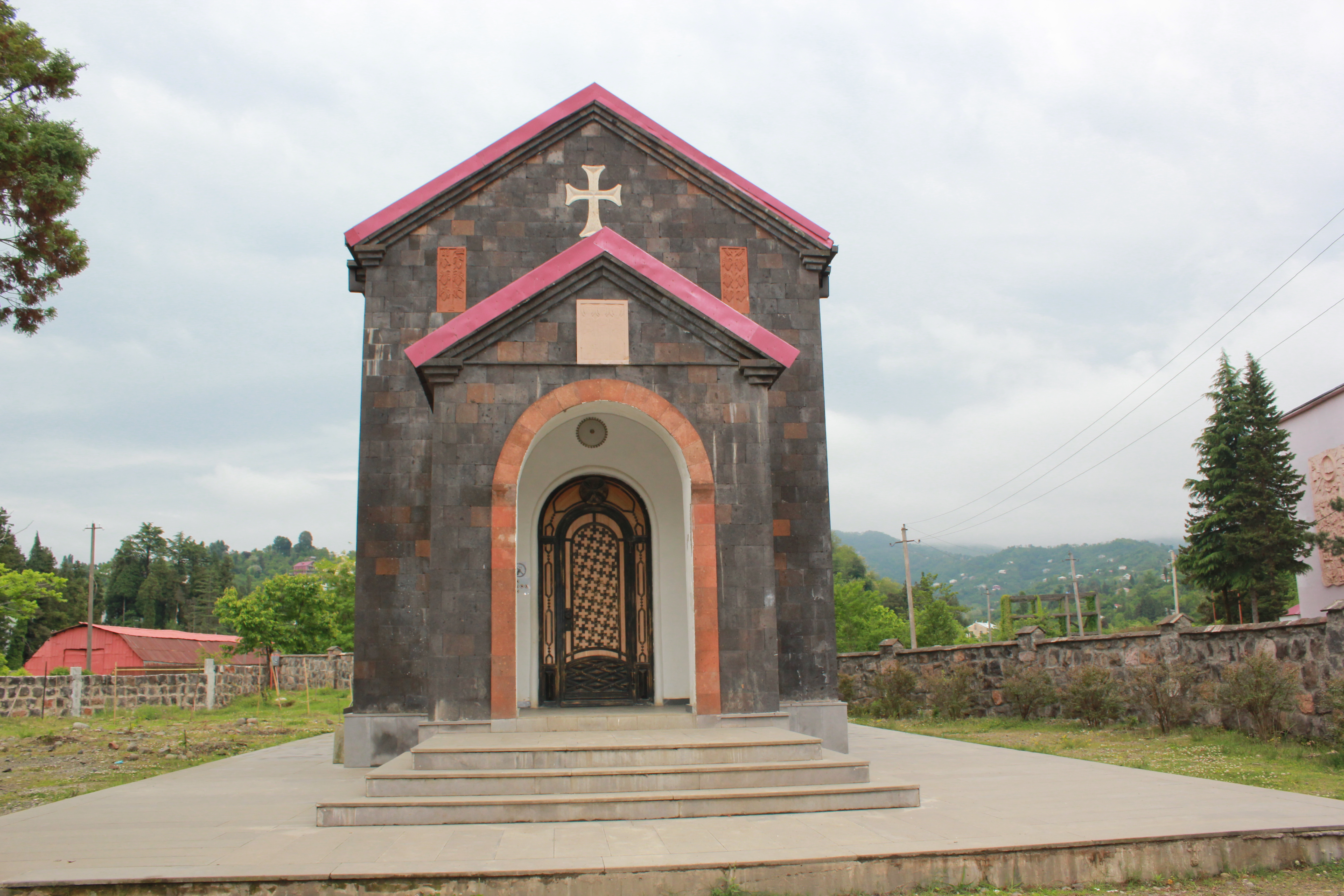 The Three Hierarchs church, Kobuleti. Gerogia.